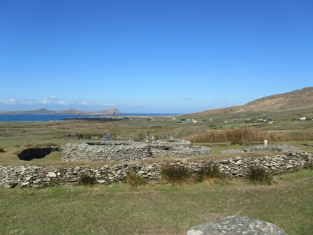 County Kerry, Caherdorgan Fort. Wikidata has entry Q30247267 with data related to this item.